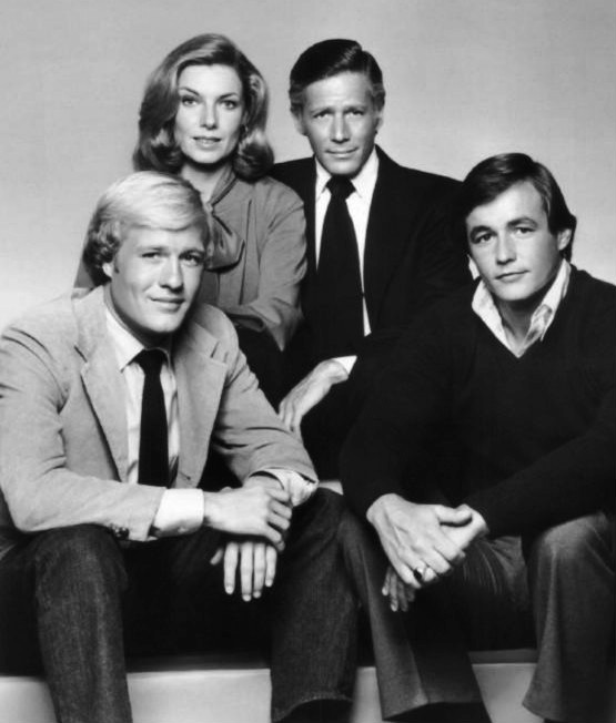 Photo of the main cast of the television program Rich Man, Poor Man-Book II. Standing are Susan Sullivan (Maggie Porter) and Peter Strauss (Rudy Jordache). Seated are Gregg Henry (Wesley Jordache) and James Carroll Jordan (Billy Abbott).